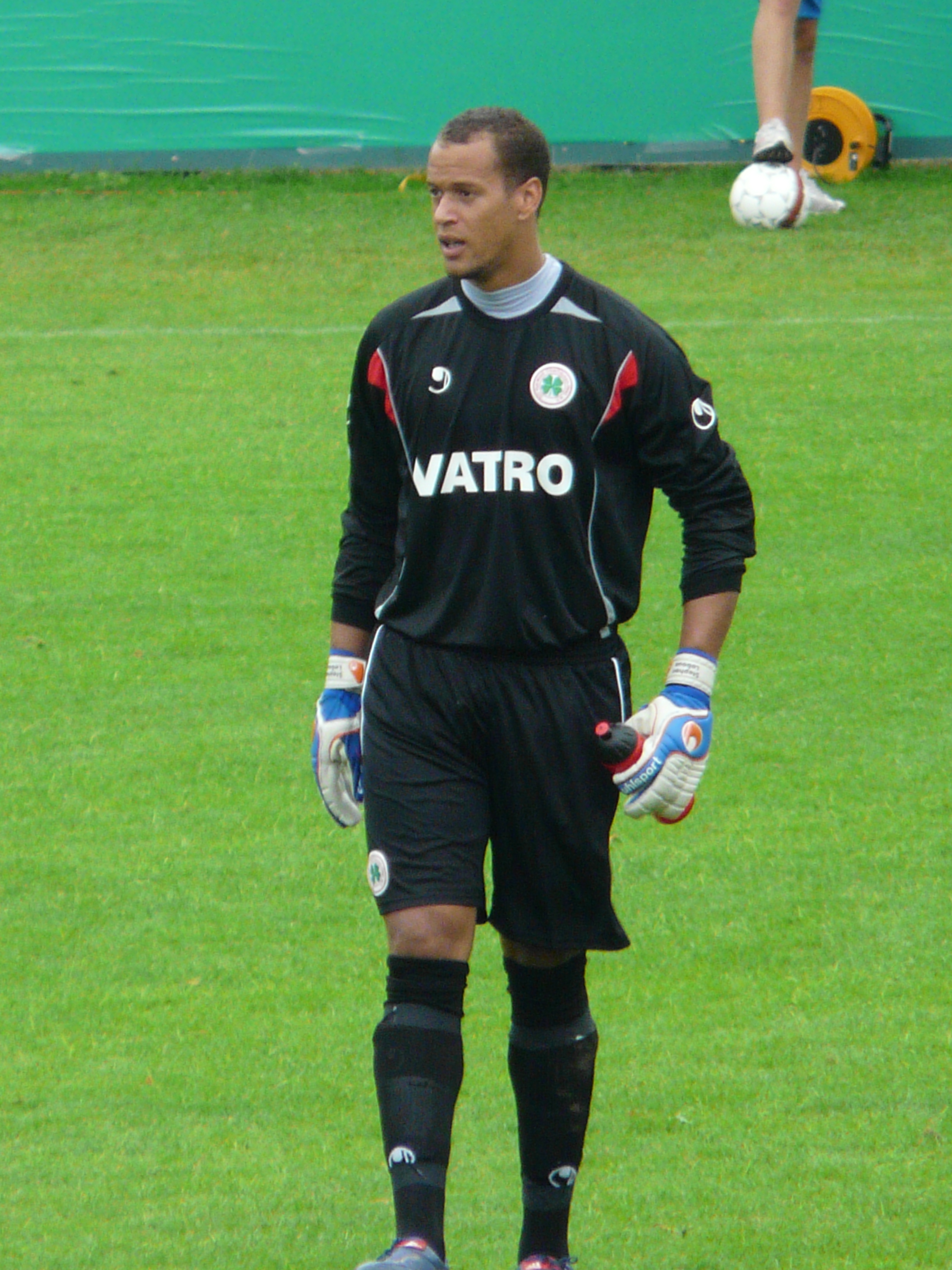 Stephan Loboué as Player from RW Oberhausen